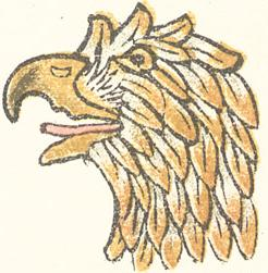 The Aztec day sign cuauhtli (eagle).